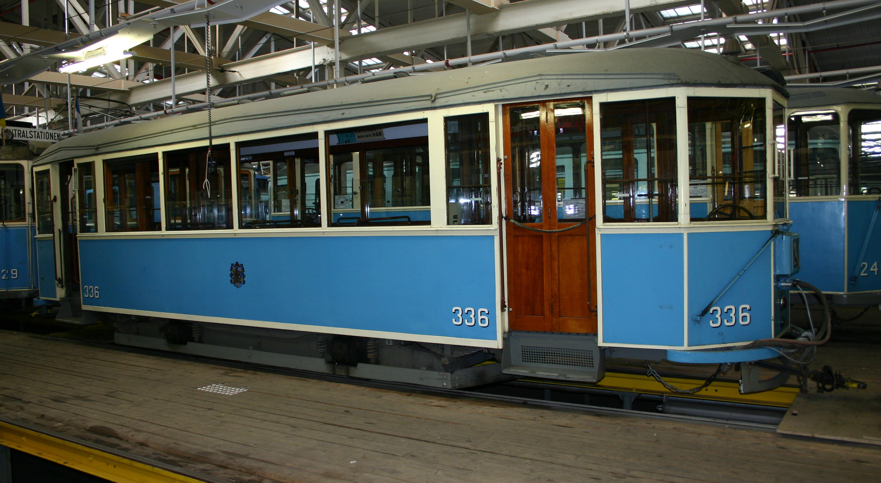 Tram trailer 336, Gothenburg class S26